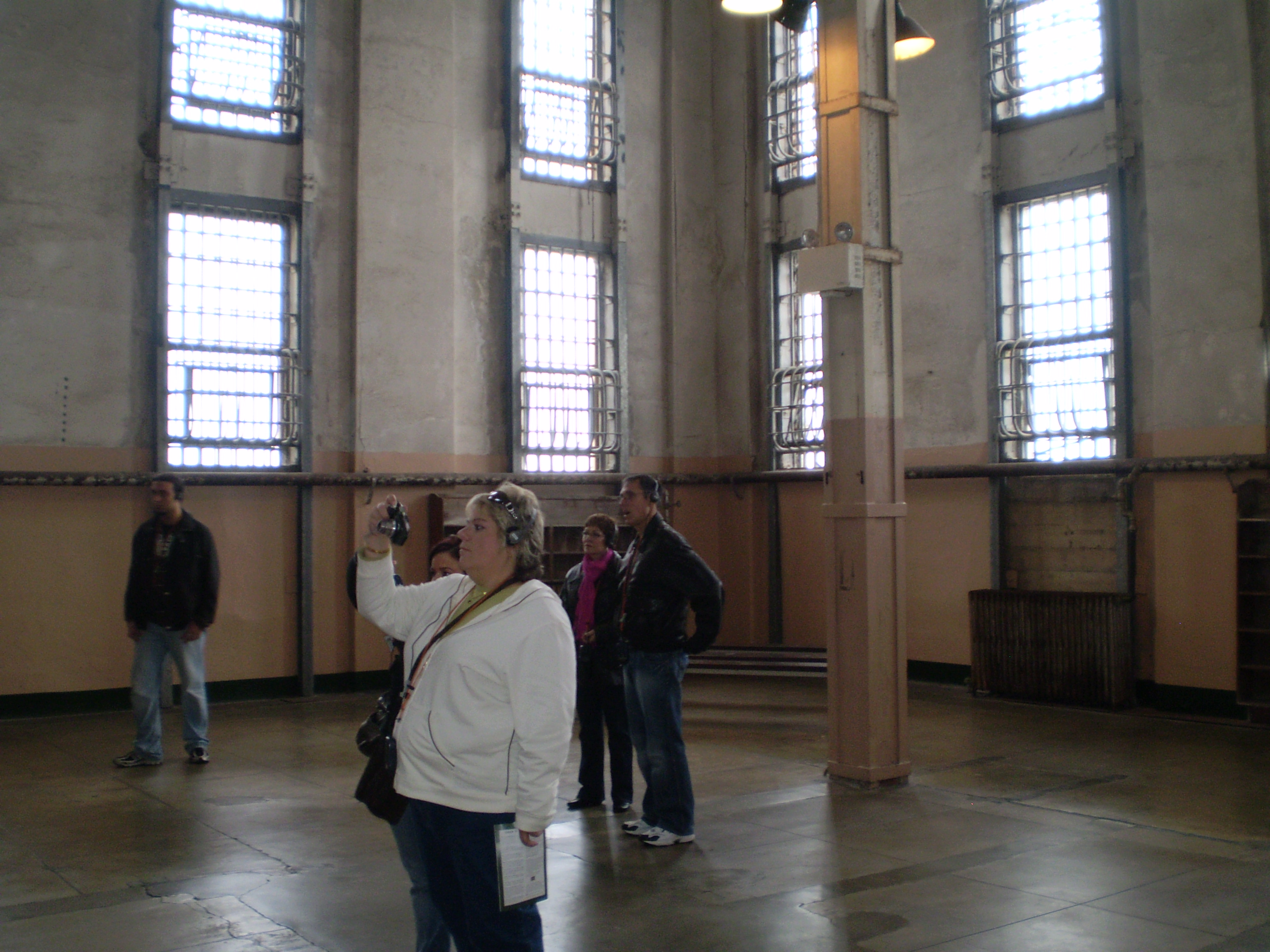 Library in Alcatraz Island